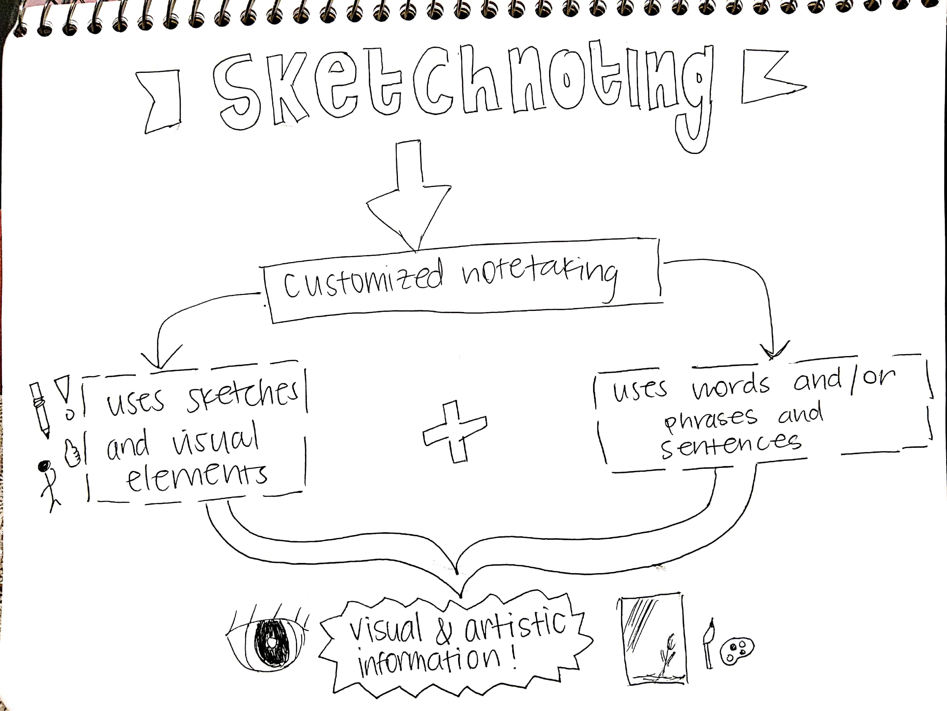 Sketchnotes are notes that use words and sketches/visual elements to communicate information in a more visual and artistic way. This is an example of what a sketchnote. Essentially, it is a sketchnote describing the definition of a sketchnote.